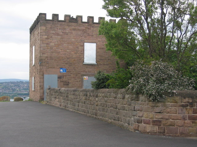 Boston Castle - Rotherham. The castle, built in 1775, was a hunting lodge owned by the Earl of Effingham. The Earl marked his objection to the harsh British treatment of the American colonies, by naming the lodge Boston Castle (after Boston, Massachusetts, the scene of the Boston Tea Party of 1775). He also banned tea drinking at the castle! The building has suffered badly from vandalism and is currently derelict. It stands on a hillside with fine views over the valley of the Rivers Don and Rother.